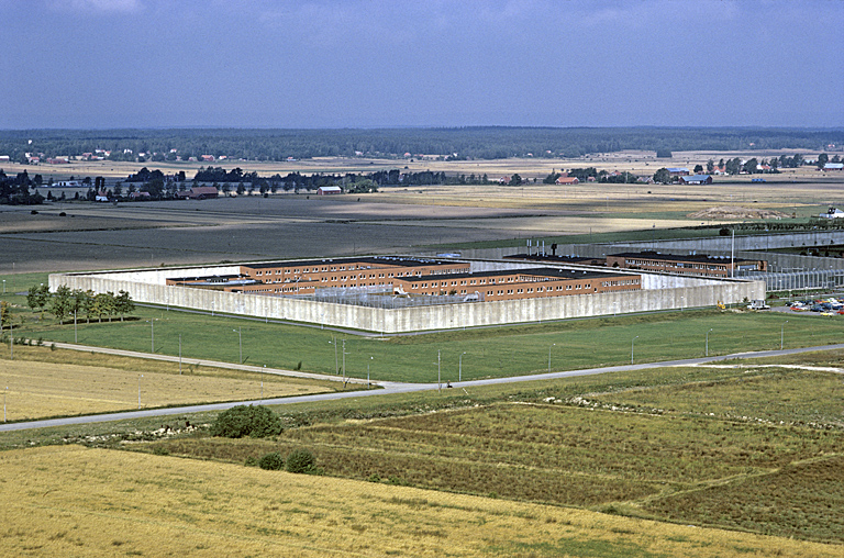 Outside the prison walls. The picture was probably taken in the mid-1970s.